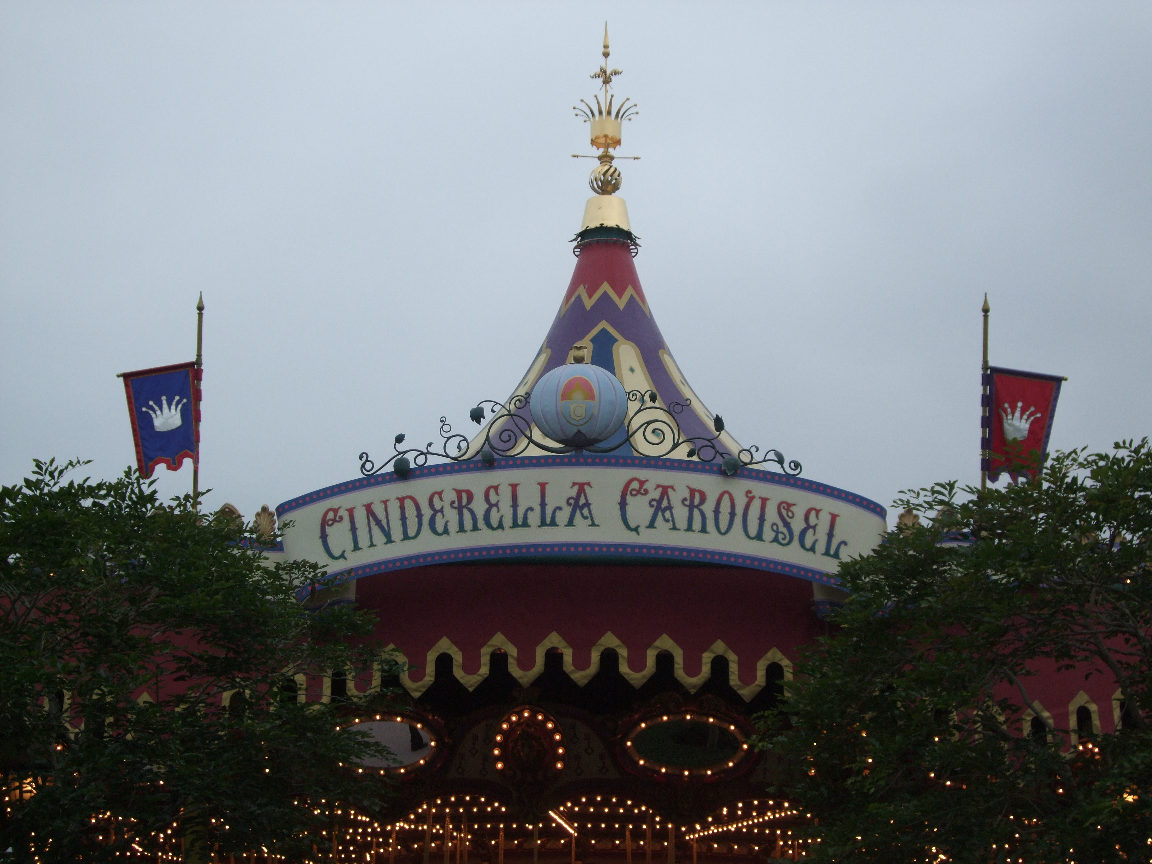 Cinderella Carousel at Hong Kong Disneyland